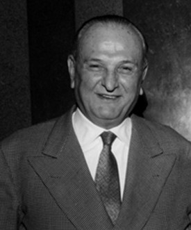 The Italian businessman Furio Cicogna (1891-1975) in the 1950s/1960s